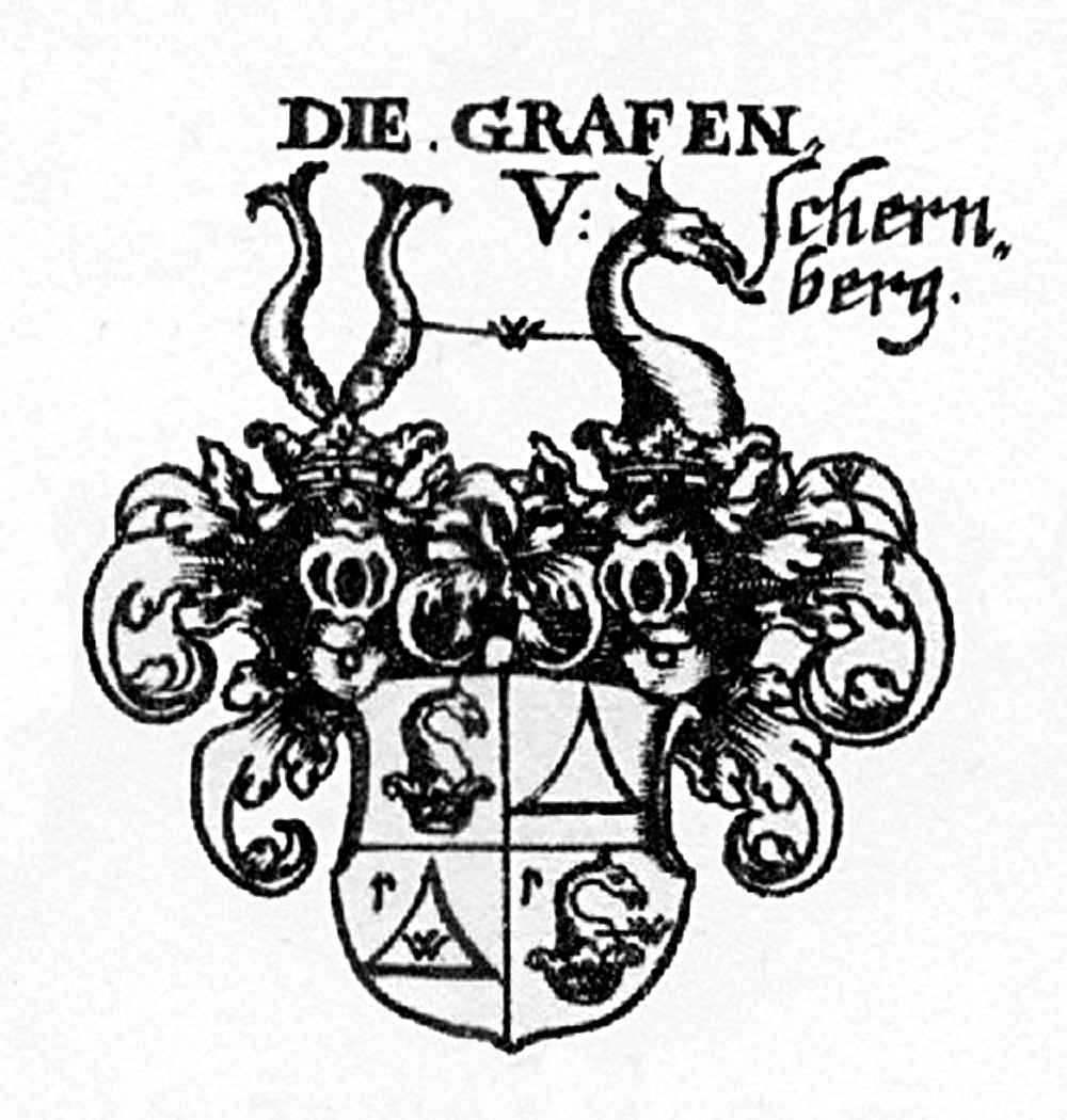 Coat of arms of Graf(f) von Schernberg (no counts, Graf is the name of the family